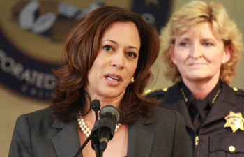 Attorney General Kamala D. Harris Announces Launch of Human Trafficking in California Website January 6, 2012 Attorney General Harris marks National Slavery and Human Trafficking Prevention Month with launch of website designed to connect Californians in the fight against human trafficking.